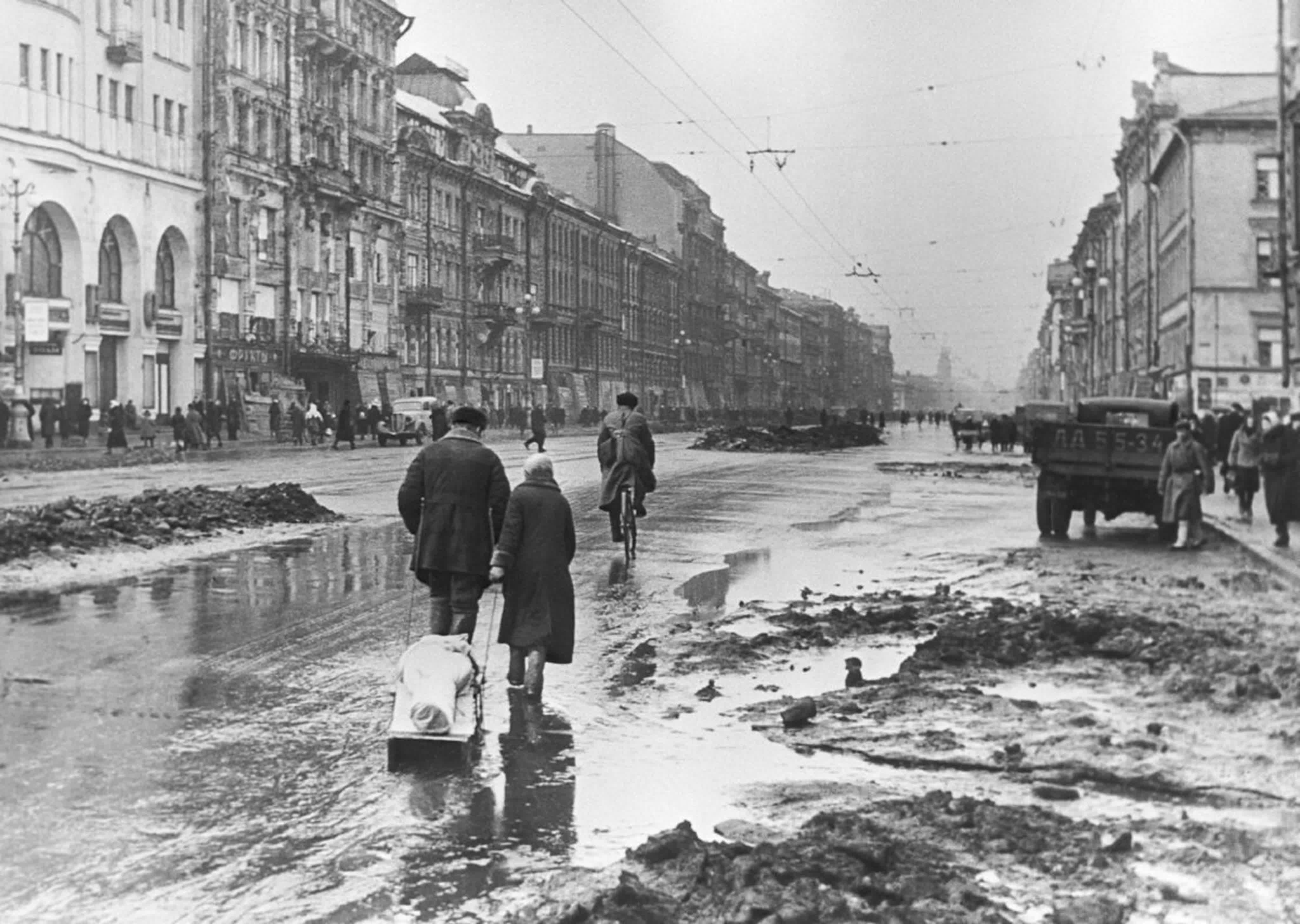 “In besieged Leningrad”. Leningradians on Nevsky avenue during the siege.